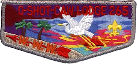 O-Shot-Caw Lodge of the South Florida Council